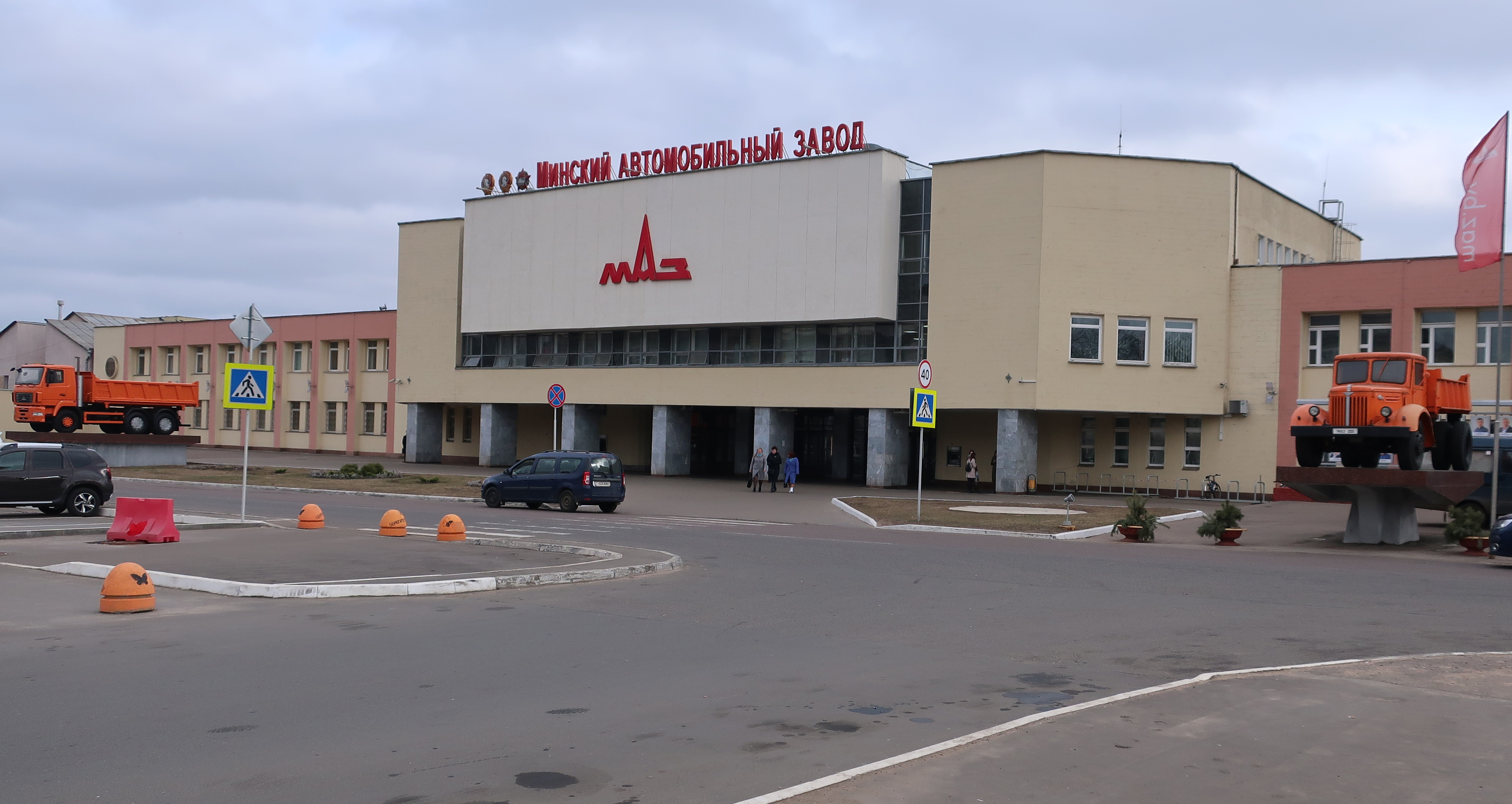 Minsk automobile plant (MAZ)